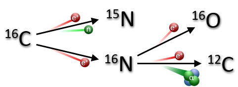 Decay chain of carbon-16